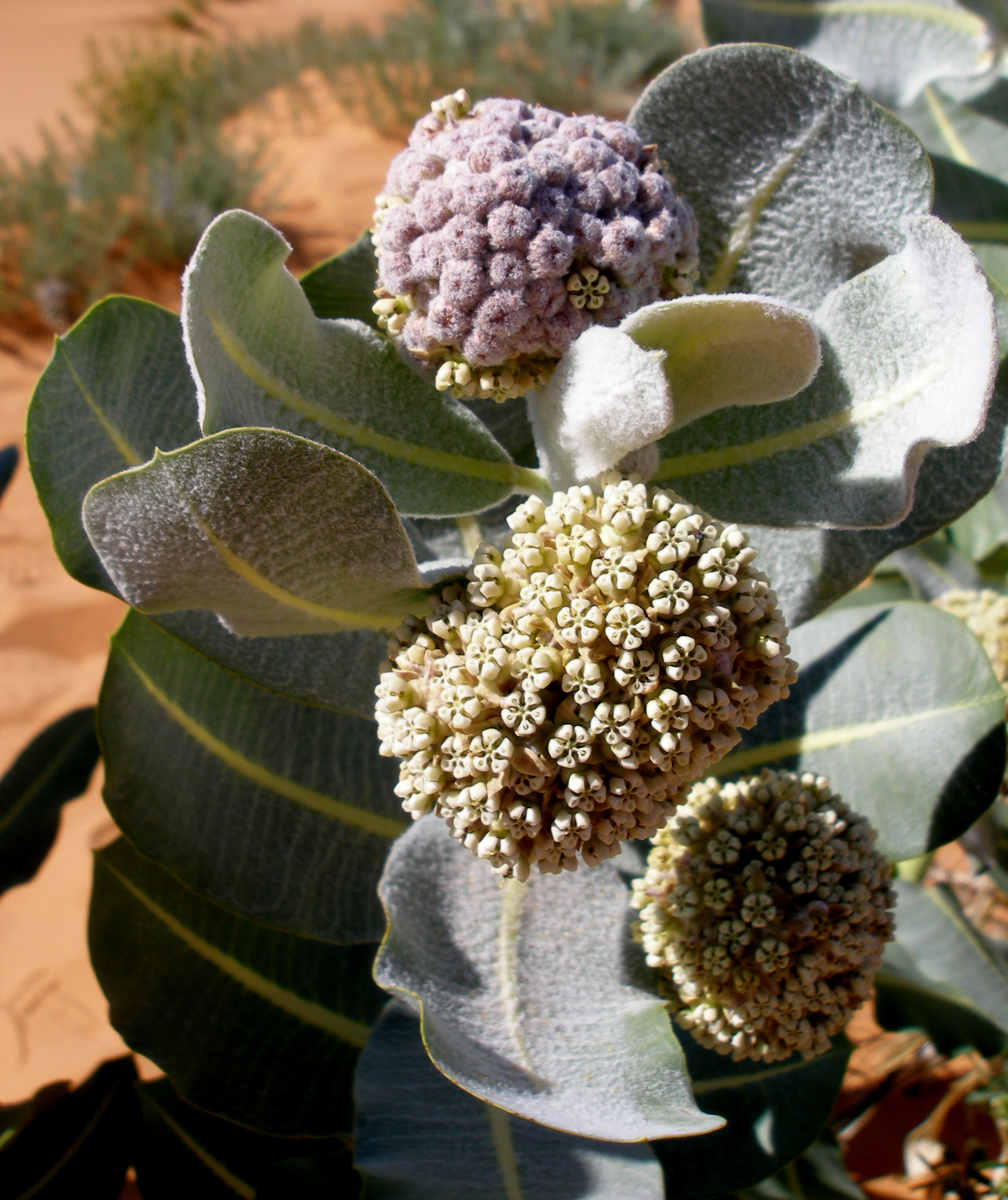 Asclepias welshii